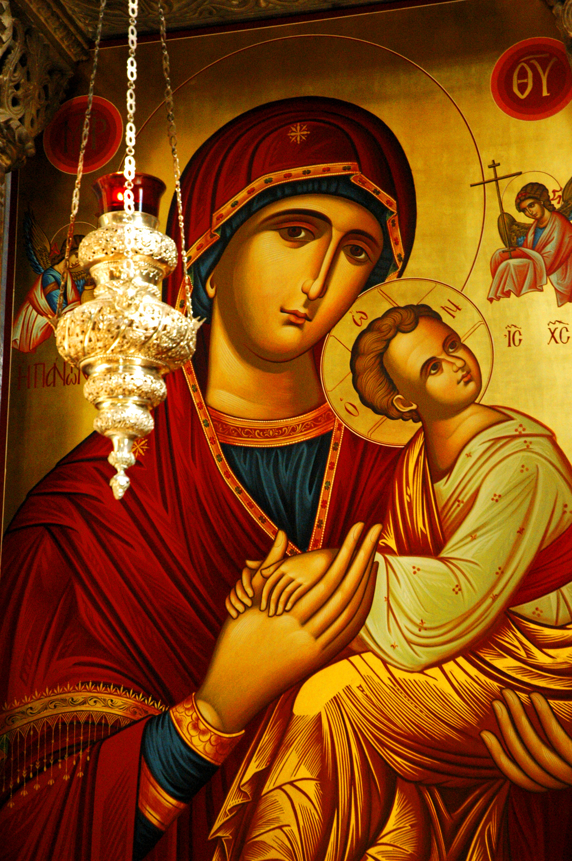 Virgin Mary (byzantine icon) in Hosios Lukas Monastery